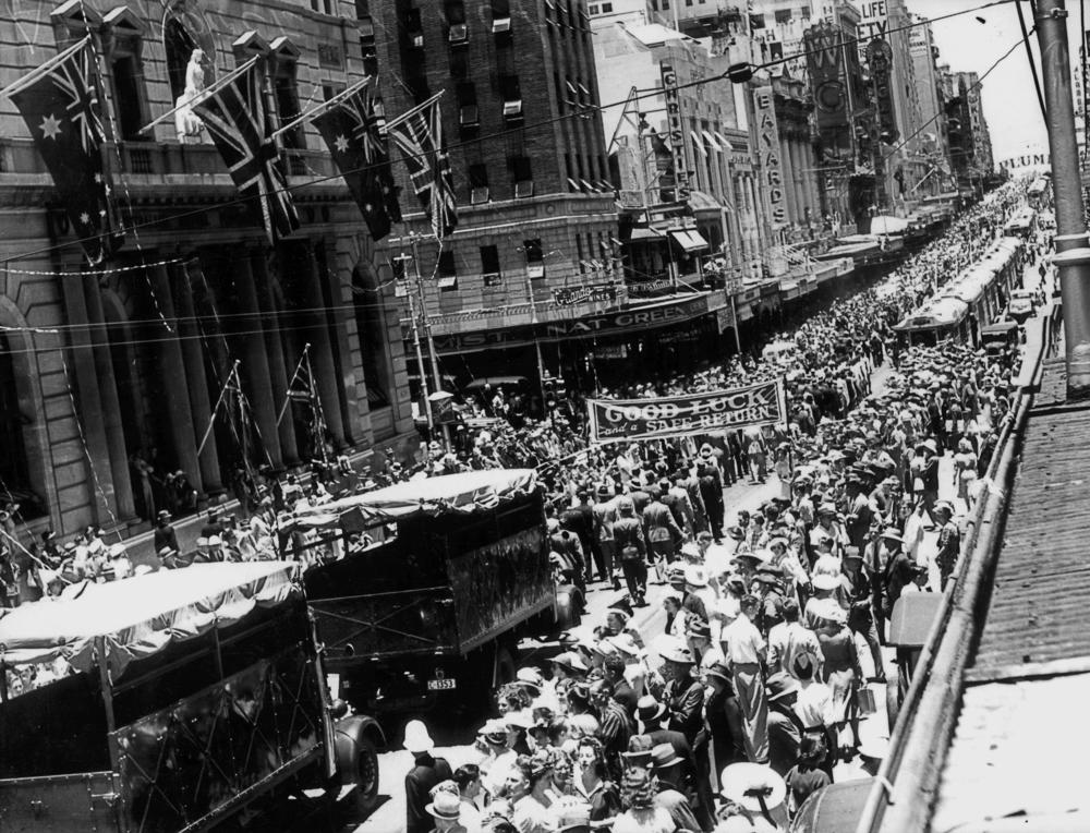 Crowds gather to watch the Air Force Parade in Queen Street Brisbane, December 1940 Flags and bunting decorate the street as an Air Force contingent and military vehicles parade through the crowds lining the street. A tram and some motor vehicles are also sharing the street. A banner wishing the airmen good luck and a safe return is being carried along in front of the parade. Many advertising signs and shop names are visible above the shop awnings.